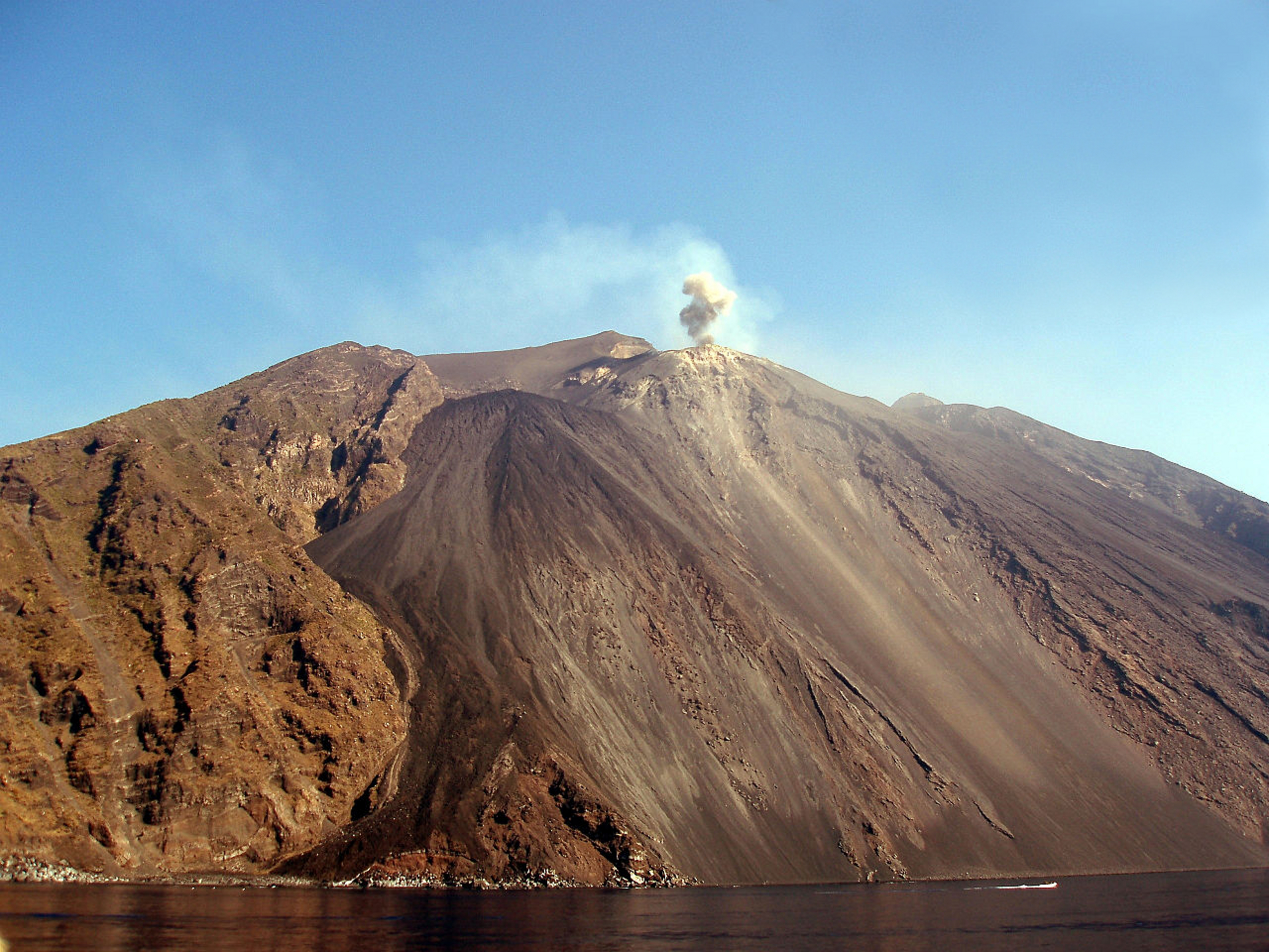 Eruption of Stromboli by day